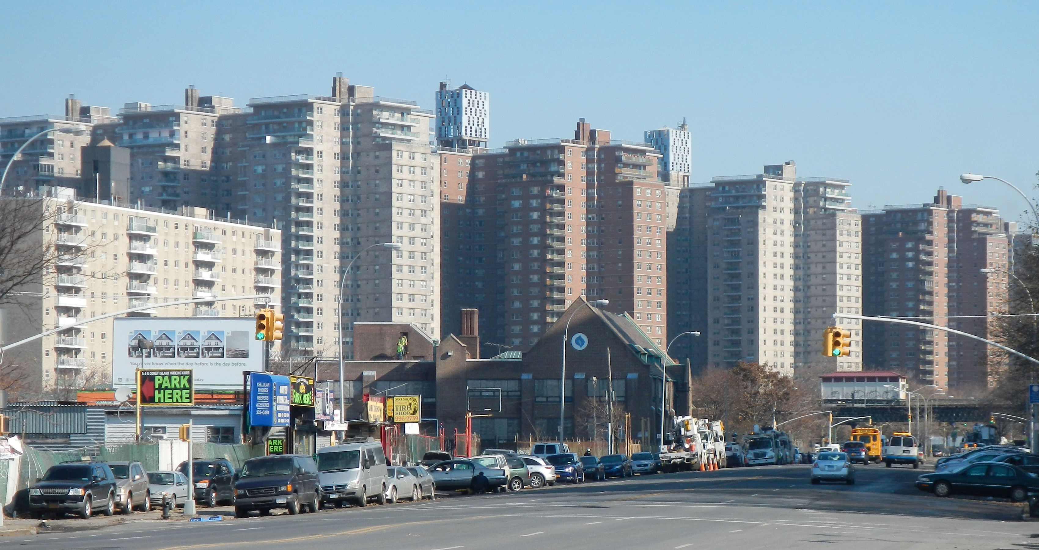 Looking east, zoomed, across West 12th at apartments. Foreground left, a small former Brooklyn Union Gas building. Foreground right, the Neptune Avenue BMT station